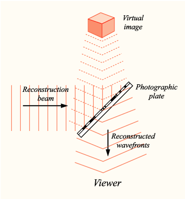 Diagram of the holographic reconstruction process. Text-removed versions at image:Holography-reconstruct-notext.png.